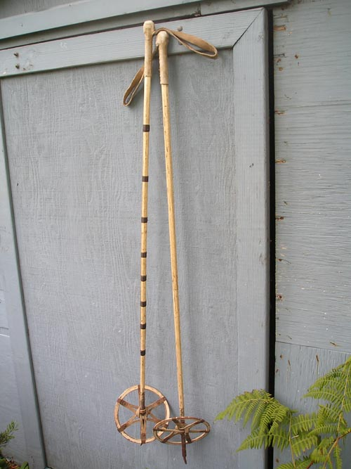 Wooden and leather cross-country ski poles, circa 1950. One is wrapped in black tape because the wood had started to split. These poles were well used in the Adirondacks and are now in retirement in California.